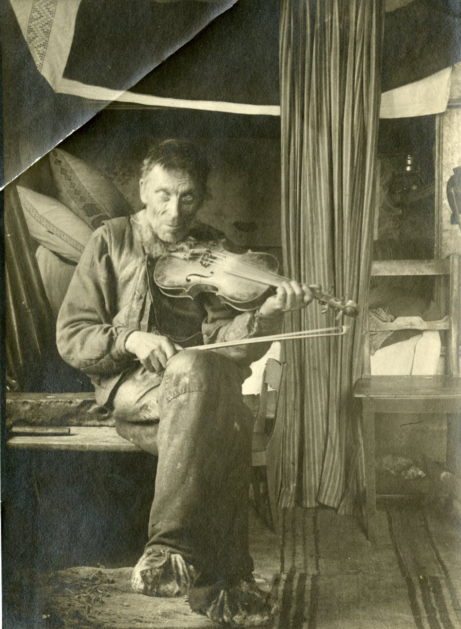 An unidentified folk musician with his violin. Herman Helsing? Sm id_nr: 5981. Photo: unknown. Date: unknown. Archive of the Sibelius Museum - Sibeliusmuseums arkiv - Sibelius-museon arkisto.